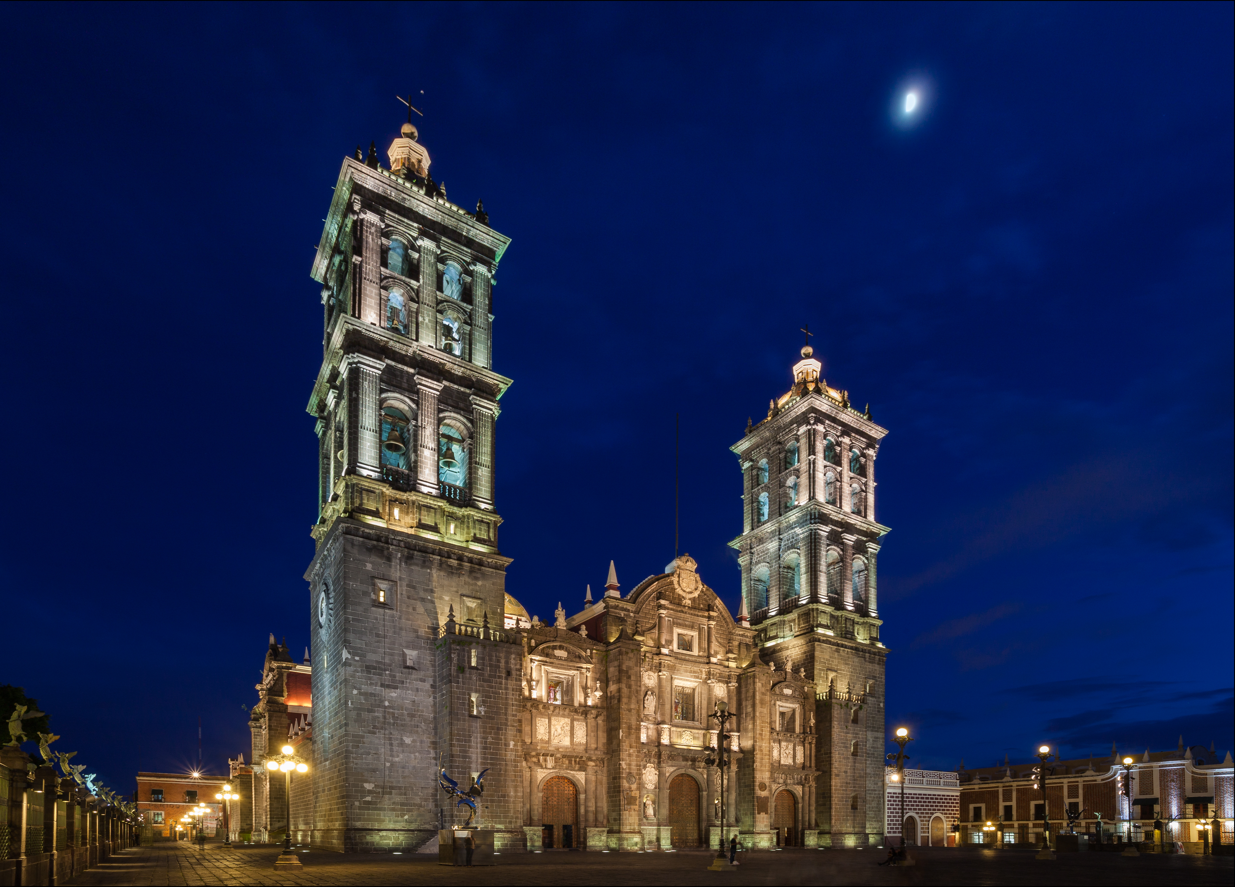 Cathedral of Puebla, Mexico